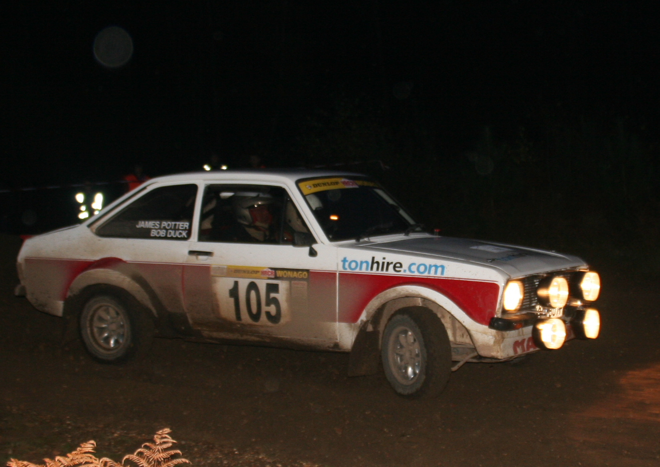 Tempest Rally (470)